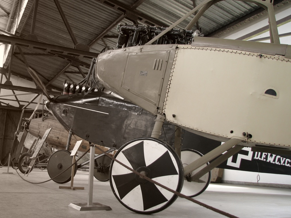 Aviatik C.III and DFW C.V on display at Polish Aviation Museum in Kraków.